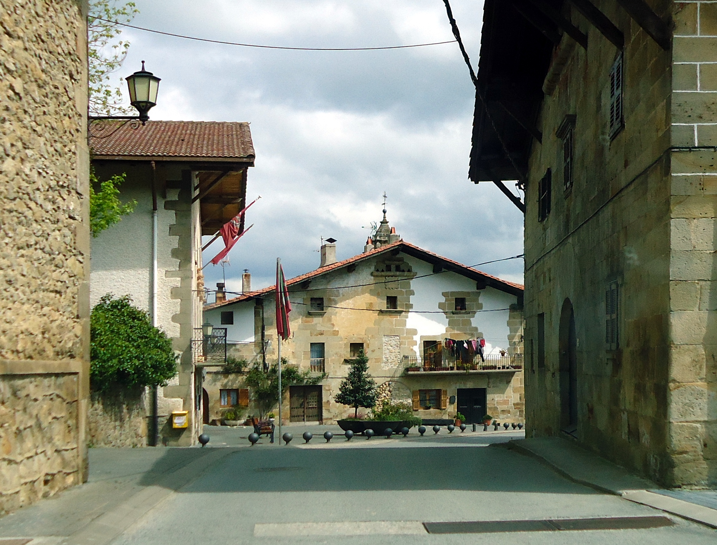 Urdiain village (Sakana, Navarre)